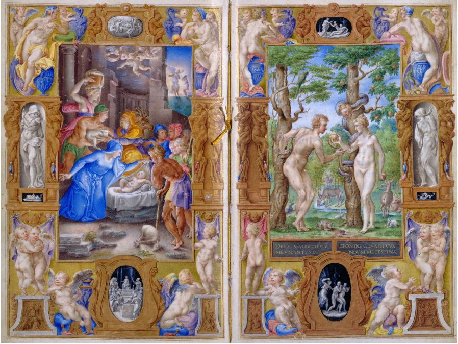 Farnese Hours: Adoration of the Shepherds and Fall of Man The Pierpont Morgan Library